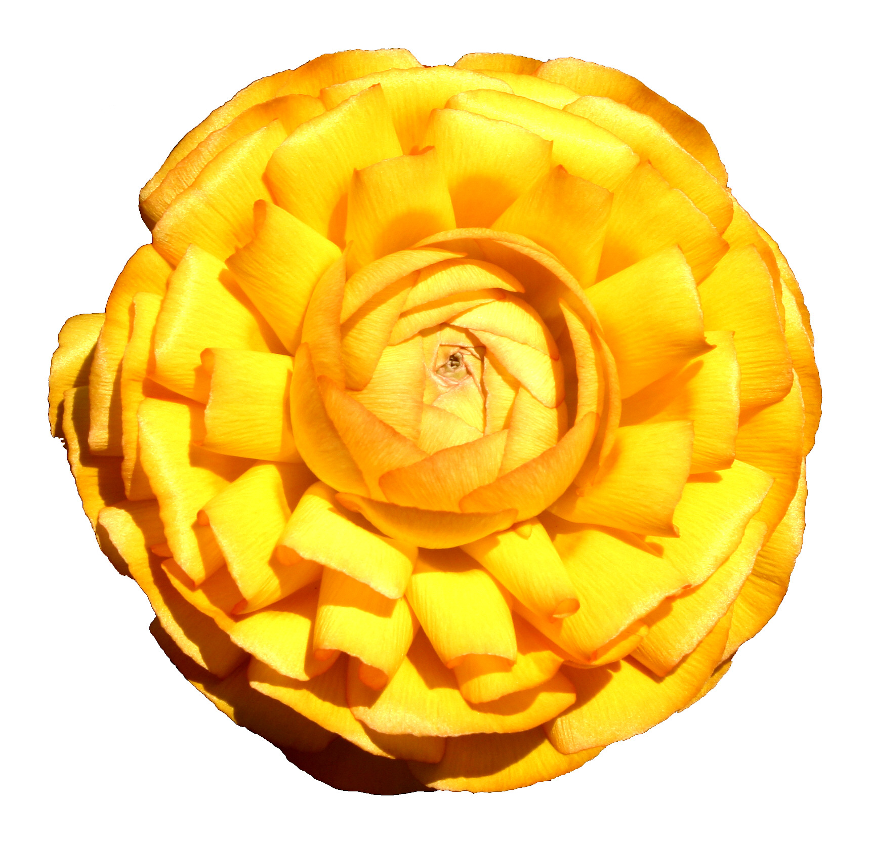 Flower